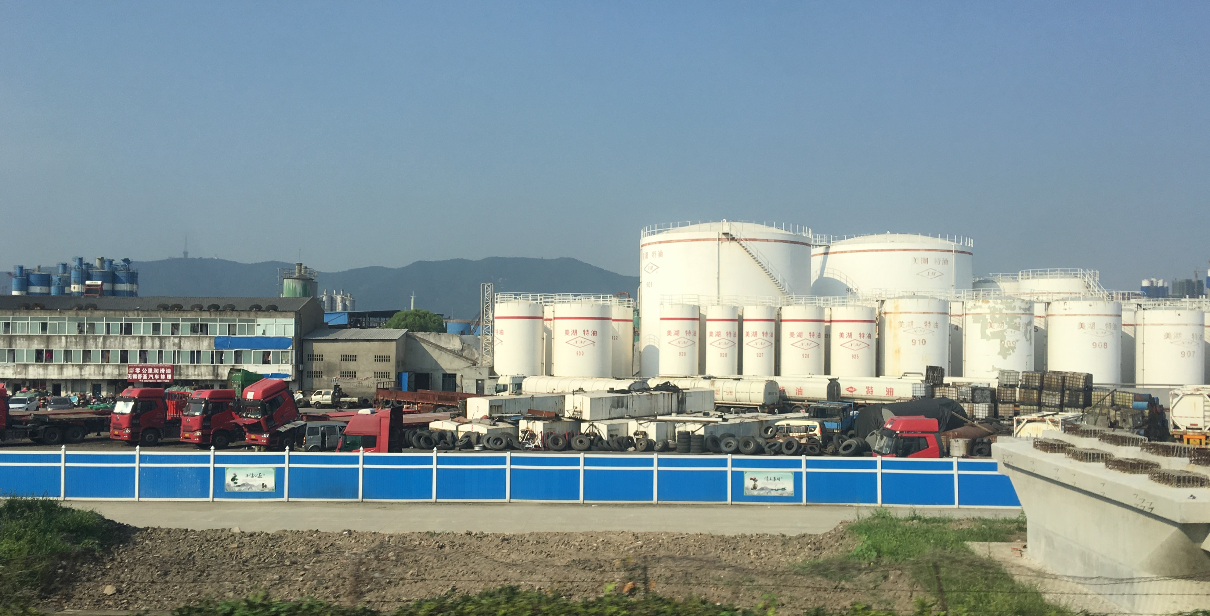 XM chemical production plant by the Xicheng Canal, just where it meets the Jinghang Canal, in Wuxi city, Jiangsu (China).